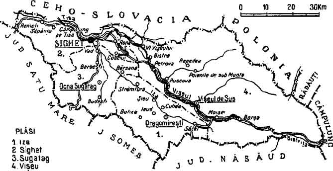 Map of Maramureș interwar county, Kingdom of Romania (1938).